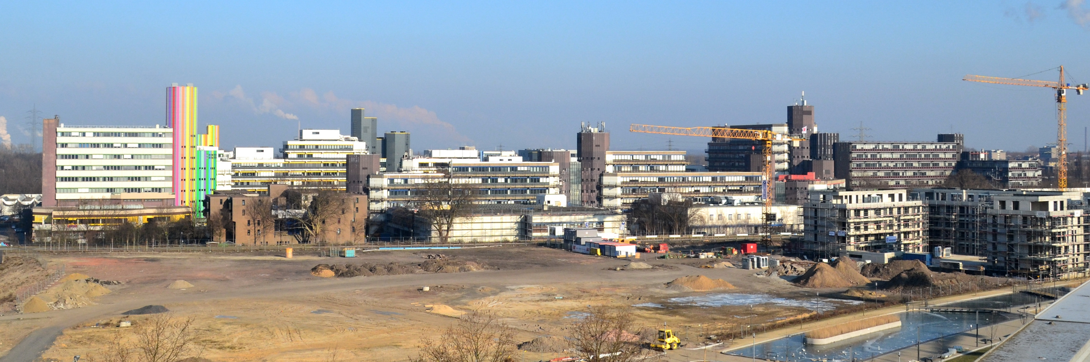 University of Duisburg-Essen, Campus Essen, view from south